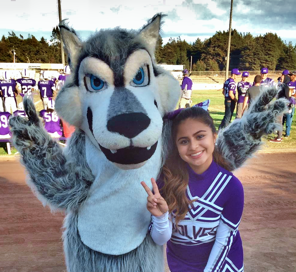 Fort Bragg High School mascot Timmy the Timberwolf poses with a cheerleader and both give the peace sign before a home football game